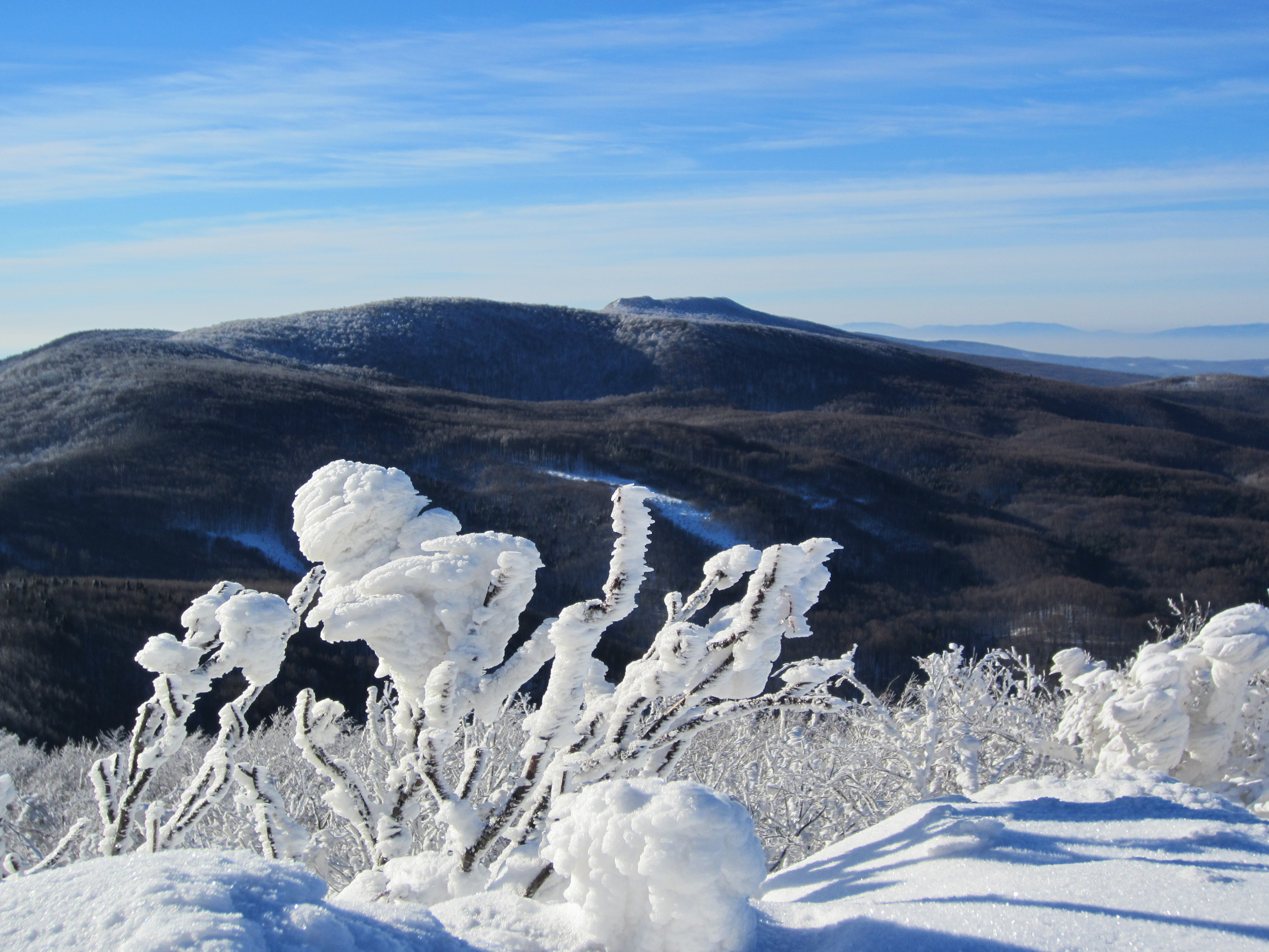 View of Vihorlat from Sninský kameň This is a photography of Natura 2000 protected area with ID SKUEV0209